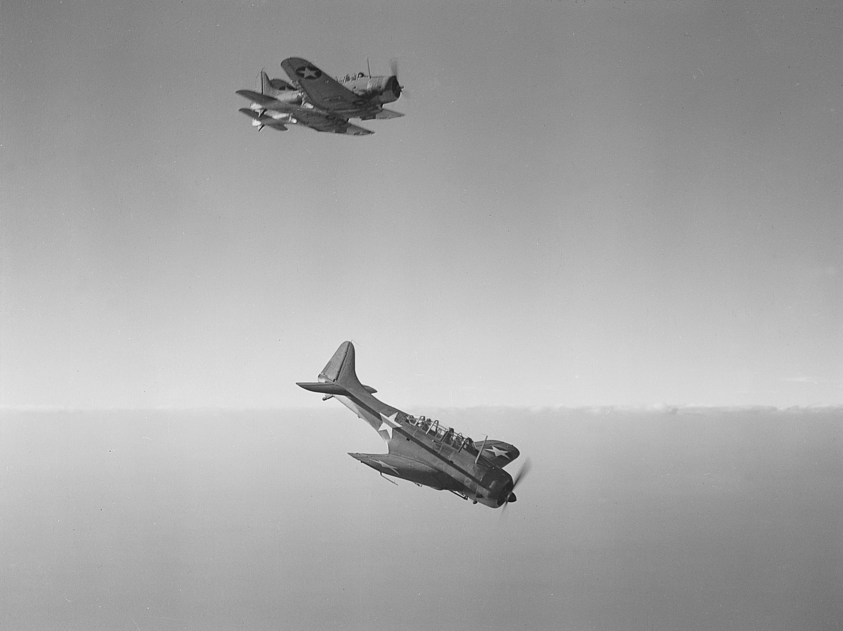 U.S. Navy Douglas SBD Dauntless dive bombers flying over Naval Air Station Daytona Beach, Florida (USA), in October 1942.